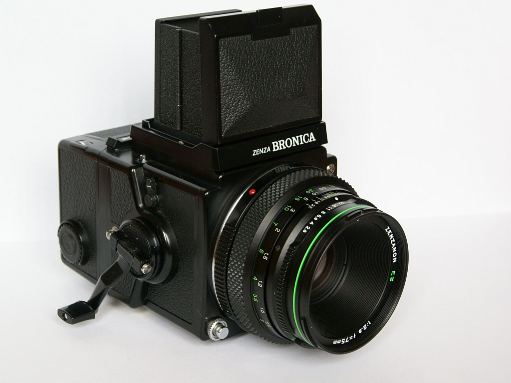 Step up from my previous medium format cameras (Isolette III, Iskra). Completely new world for me. Bronica is built like a watch, not like russian tank (Iskra). Compact, lightweight. Everything works smoothly, quietly (maybe except mirror :) ). Viewfinder will take some time to get acquainted, left-right reversion is a bit confusing. Love the green stripe (maybe I should get a Pentax?) Whole ETR(S, SI) system uses "in-lens" central shutter. This has some advantages (x-sync at all times, a bit quieter shutter), and some disadvantages (1/500 top speed, non-system lens cannot be used with ETR line bodies, system lenses are not as fast as those without shutter). Competitive Mamiya 645 uses focal plane shutter - so if you need possibility to attach eg. PentaconSix lens - go for Mamiya. Camera takes 15 photos, each one sized 6 by 4.5 (landscape orientation). Weight with 75 kit lens, standard back and waist level finder is about 1.5kg. For look from the other side, go here.